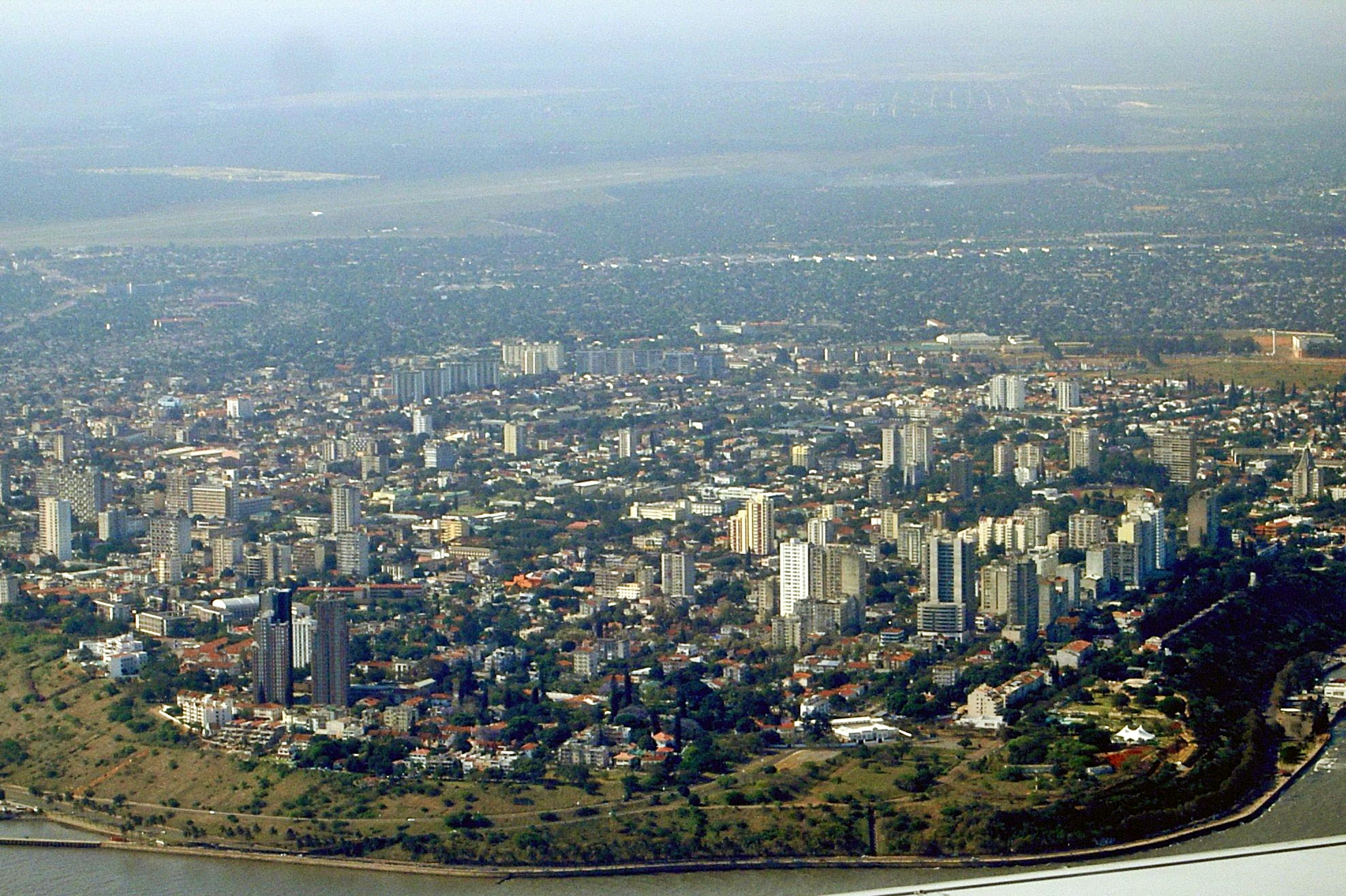 Maputo seen from the air, from southeast.